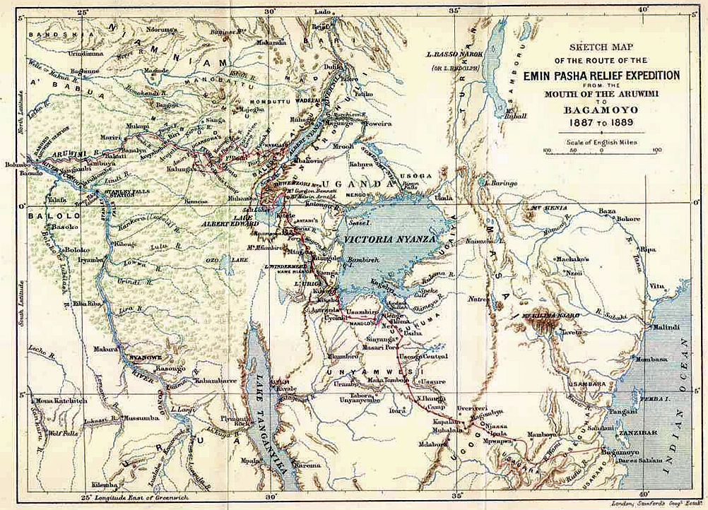 Map depicting the Route of H.M. Stanley to rescue Emin Pasha